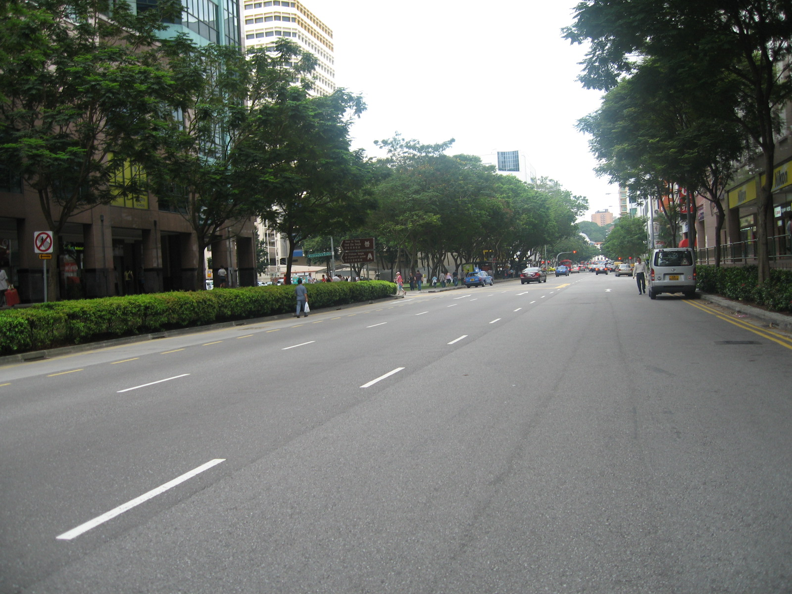 Bencoolen Street.